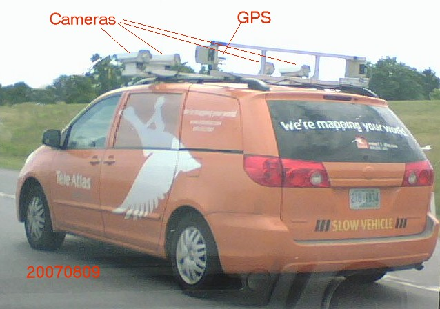 A vehicle of Tele Atlas mapping and photographing in Rochester, NY